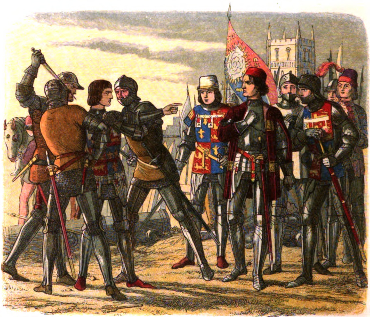 Edward of Westminster, Prince of Wales, is brought to Edward IV for questioning in the aftermath of the Battle of Tewkesbury. Edward's brothers, Richard (on the king's right) and George (left), along with Lord Hastings, stand near the king.